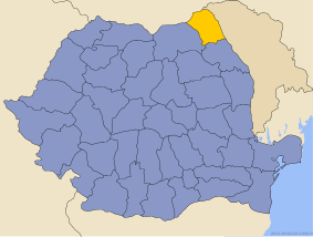 Location of Botoșani County in Romania.